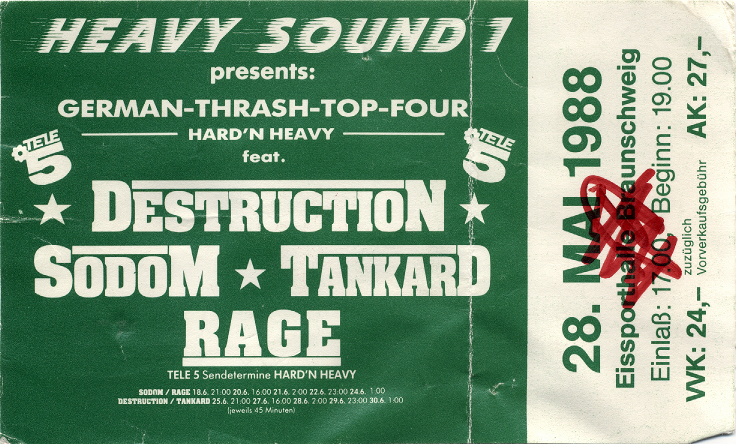 1988-05-28_Destruction-Sodom-Tankard-Rage_Braunschweig-Eissporthalle_Concert-Ticket